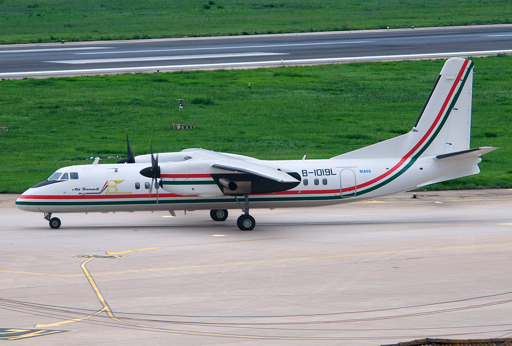 Air Burundi Xian MA-60 at Kunming - Wujiaba